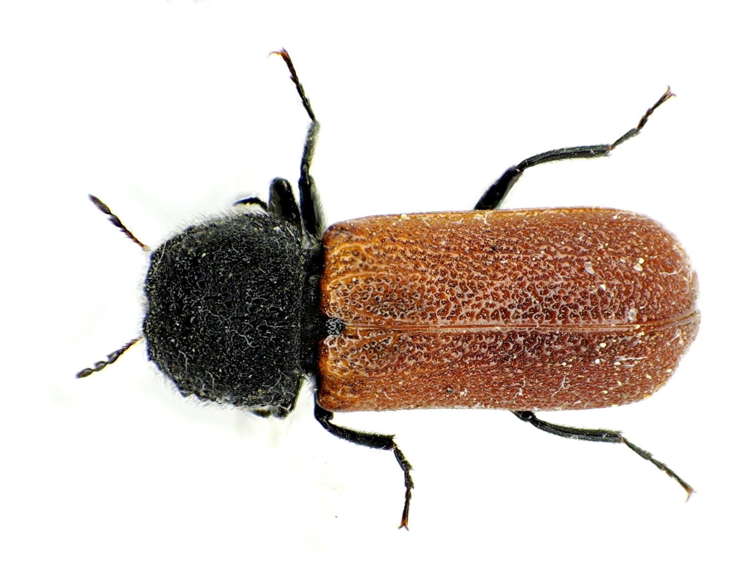 Bostrichus capucinus from Southern France